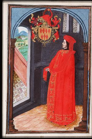 Statuts, Ordonnances et Armorial de l'Ordre de la Toison d'Or (Statutes, Ordonnances and armorial of the Order of the Golden Fleece) Place of origin, date: Southern Netherlands; 1473. Added sections: Southern Netherlands; 1478 or shortly after and 1491 or shortly after Material: Vellum, ff. 86, 249x187 (167x106) mm, 23 lines, littera cursiva (lettre bourguignonne). French. Binding: 18th-century brown leather Decoration: 1 full-page miniature (170x115 mm) with border decoration; 92 miniatures (185/155x120/100 mm); 1 historiated initial (80x90 mm) with border decoration; decorated initials with border decoration (ff., Added section: miniatures ; 4 drawings for miniatures (not finished) Provenance: Presented in 1473 by Gilles Gobet, King of Arms of the Order of the Golden Fleece, to Charles the Bold, Duke of Burgundy and the other Knights during the Chapter of the Order held at Valenciennes; Treasure of the Golden Fleece, Brussls; taken away by the Treasurer C.-F. Humyn (d. 1735) or his daughter C.Ch. de Corte; by legacy to her daughter M.-L. de Corte, wife of Ph.-E. de Poederlé; purchased in 1781 at the Poederlé sale by G.-J- Gérard of Brussels; acquired in 1832 as part of the Gérard collection (no. A 27)